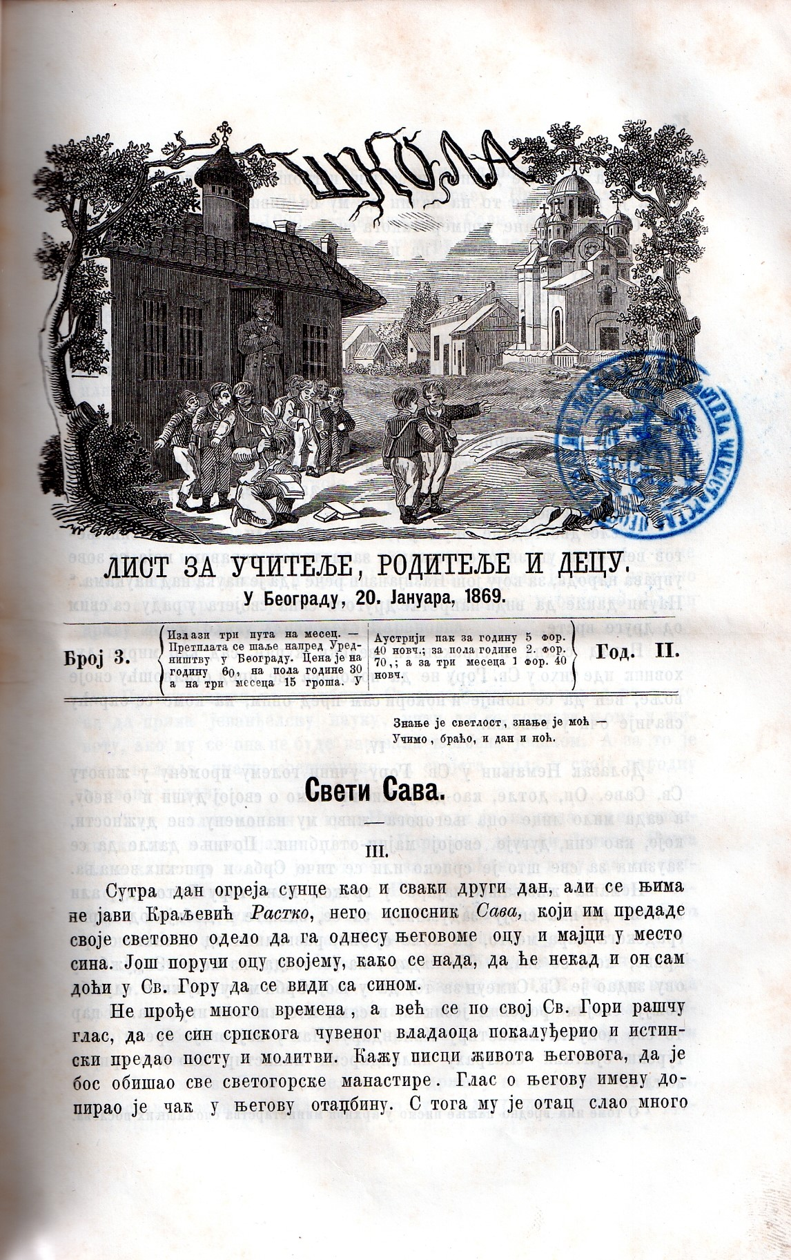 Cover of Škola magazine, number 3, 1869 Srpski (latinica): Naslovna strana časopisa Škola, broj 3, 20. januar 1869, Beograd, Srbija